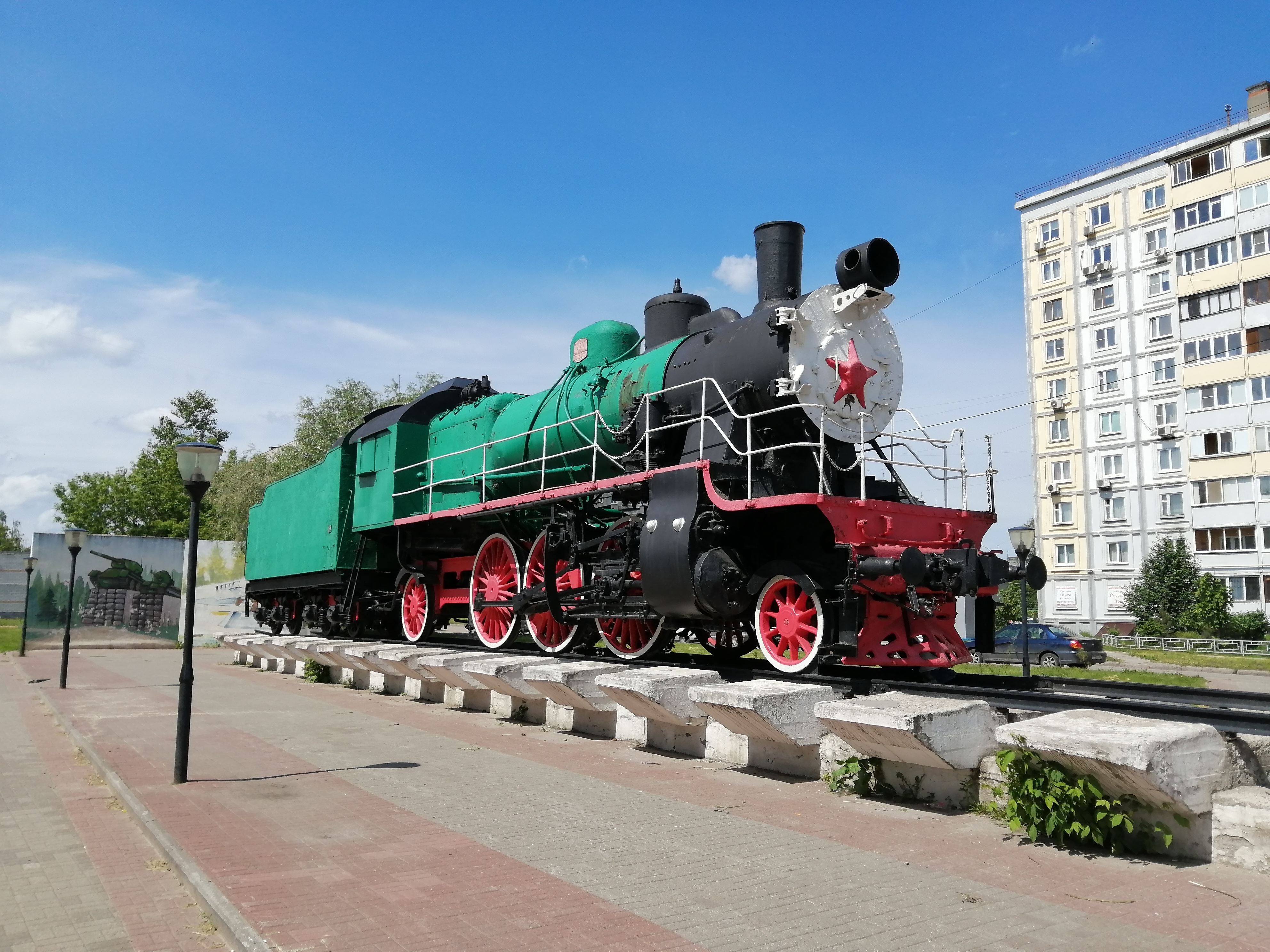 Steam engine monument Su 251-32 No. 3535 installed in Sormovo, Nizhny Novgorod